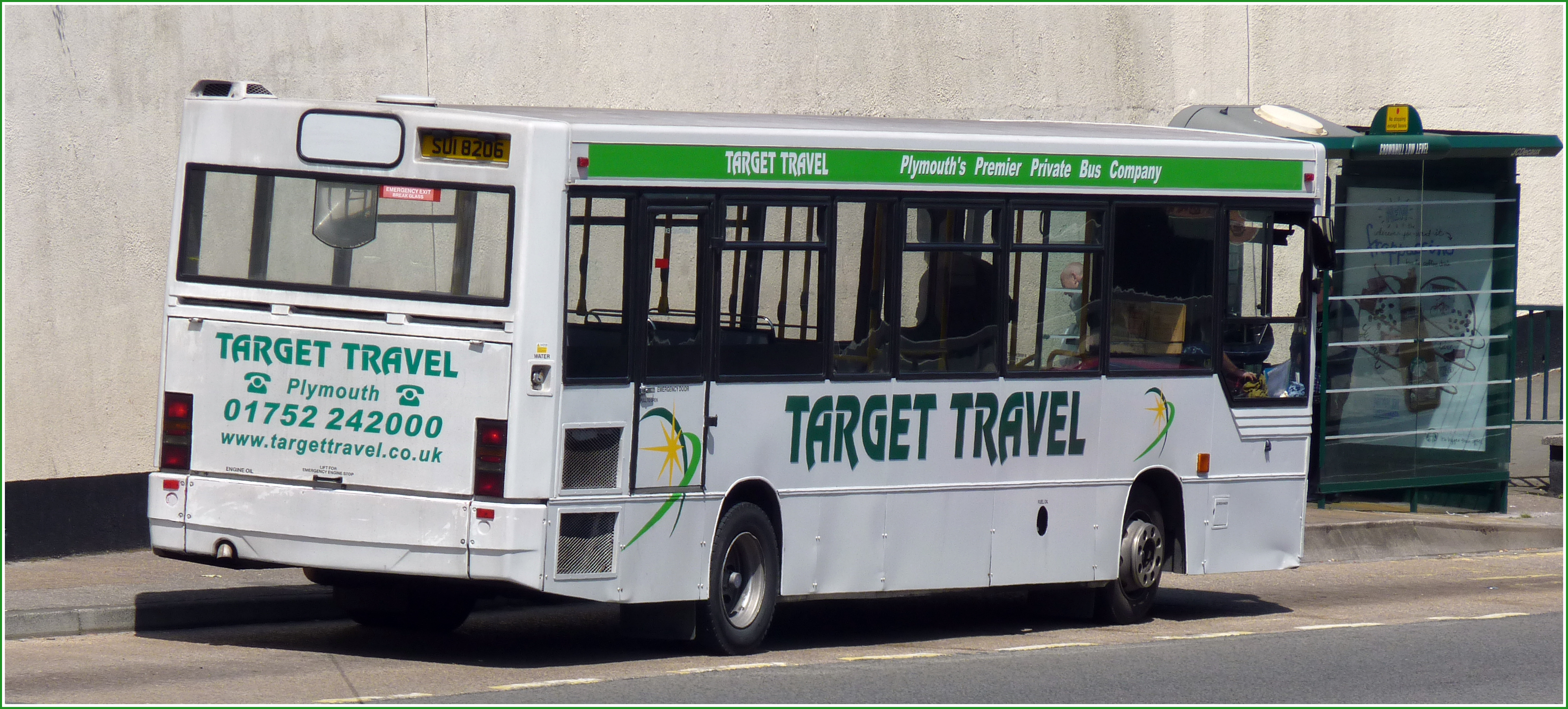 Crownhill 14 June 2011